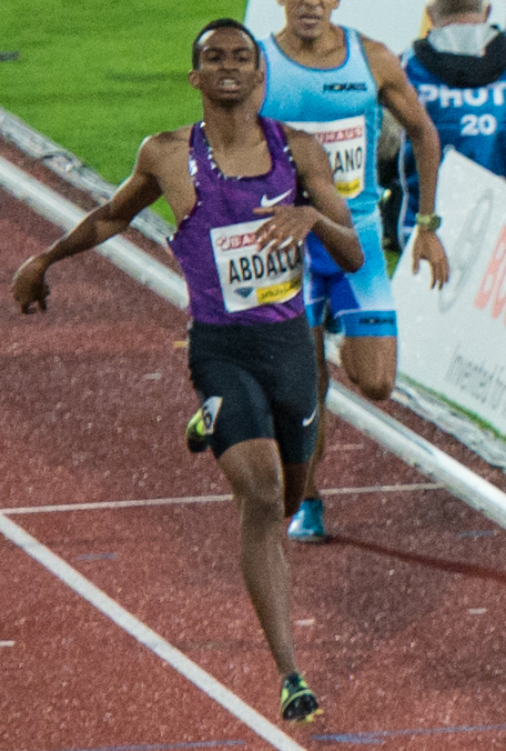 Diamond League (Bauhaus-galan) at the Stockholm Stadium on July 30, 2015.